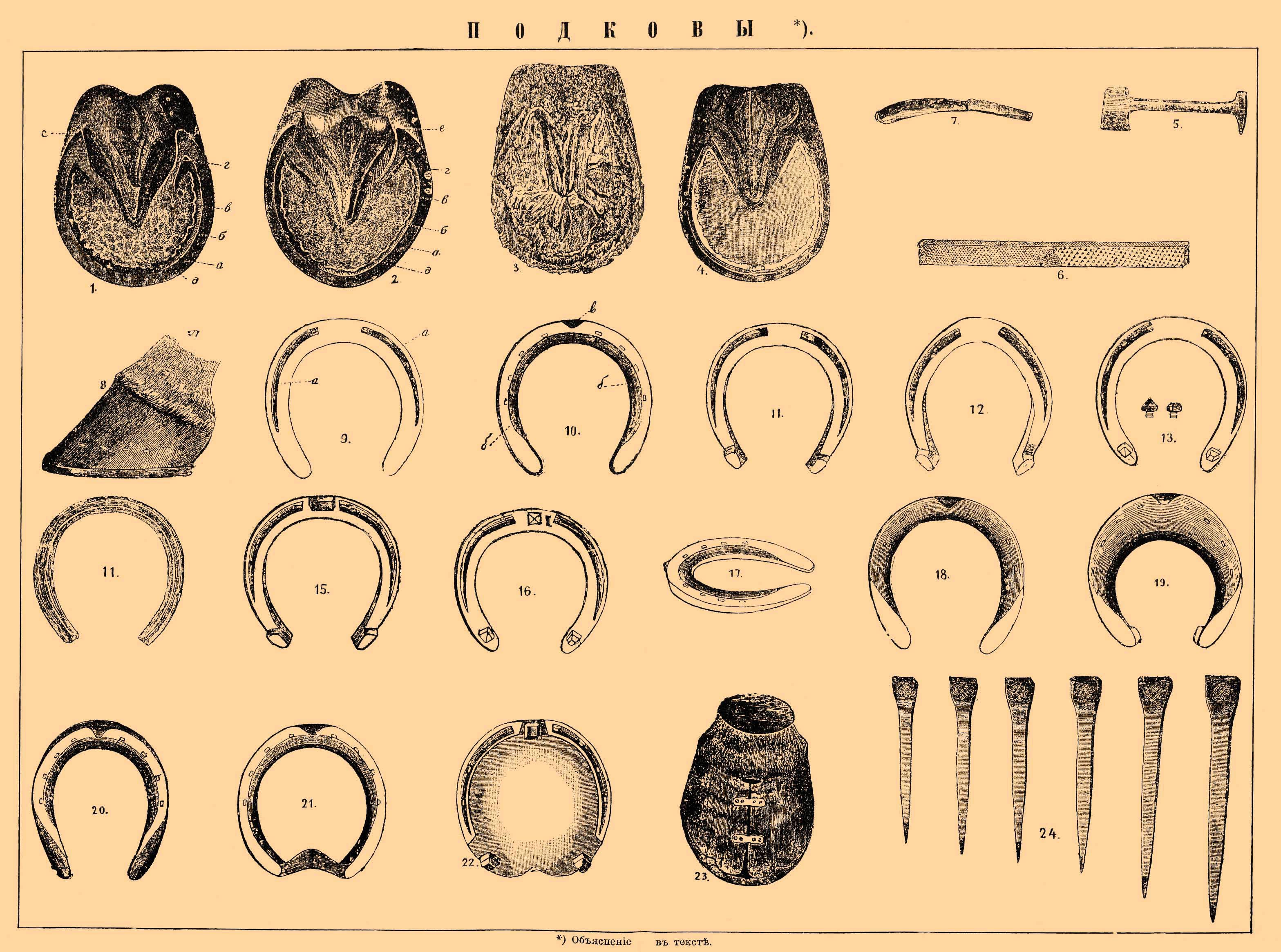 Illustration from Brockhaus and Efron Encyclopedic Dictionary (1890—1907)